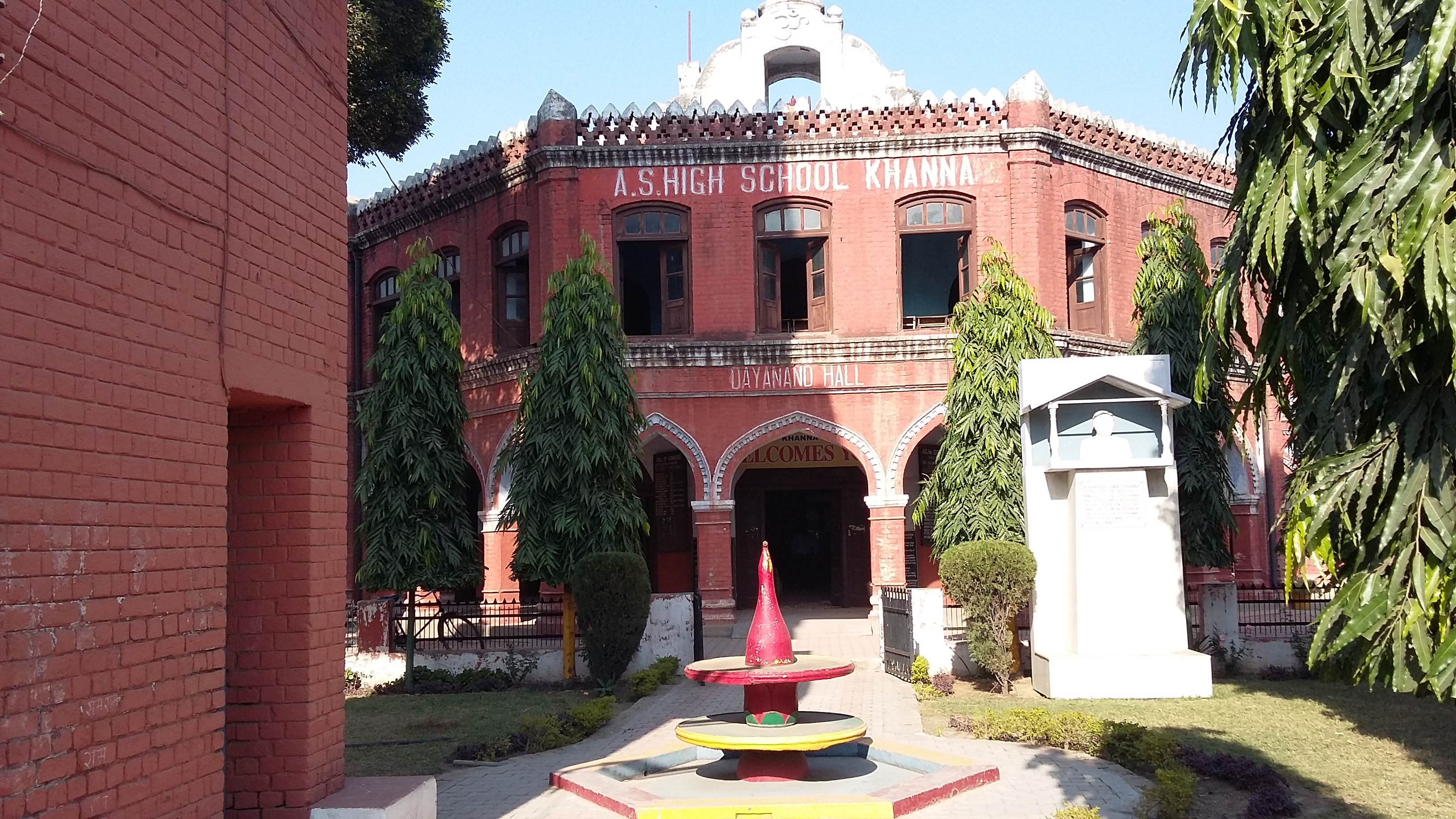 oldest school in the city